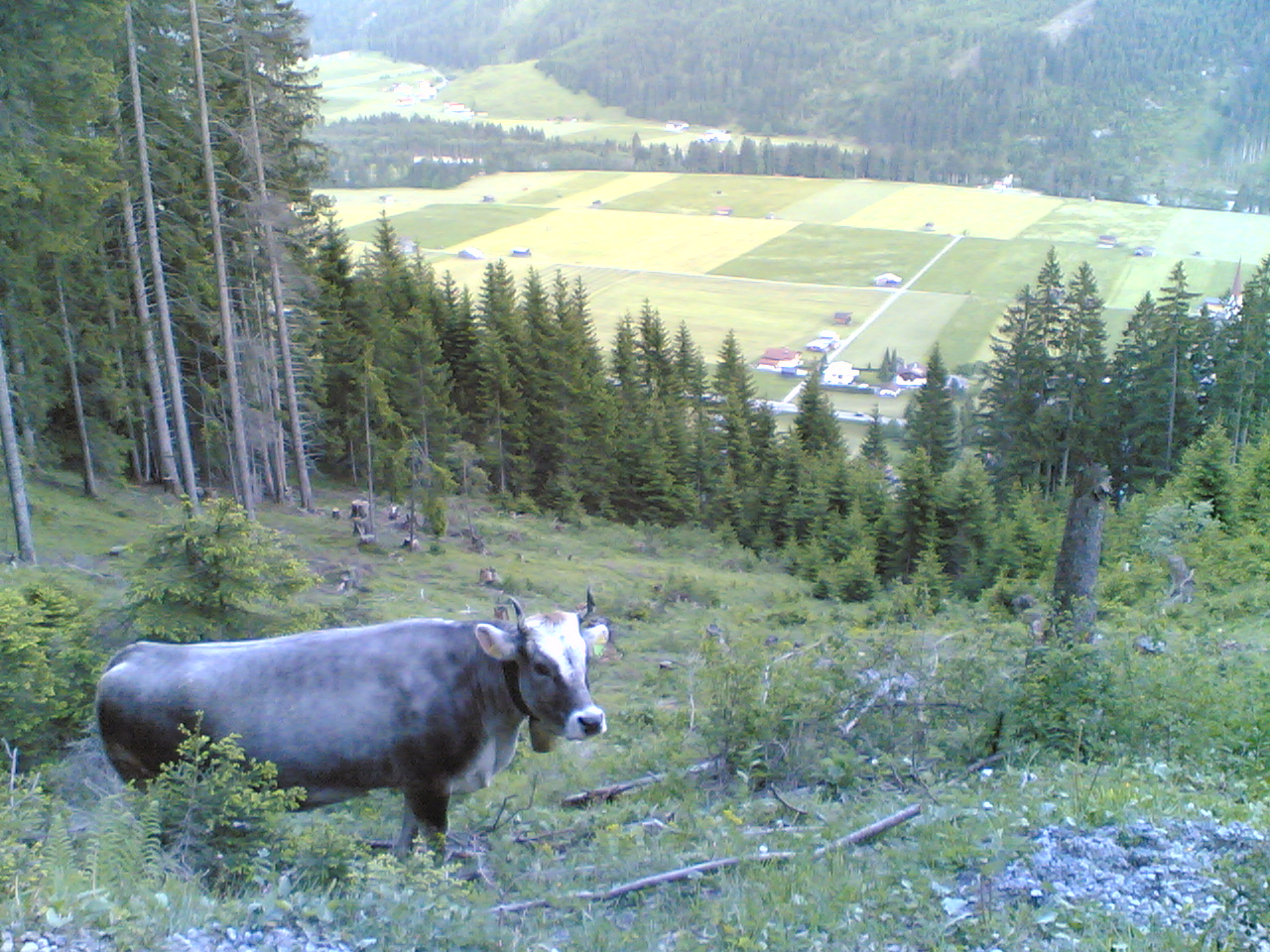 Cattle in wood of valley Lechtal, Nord Tyrol, Austria.